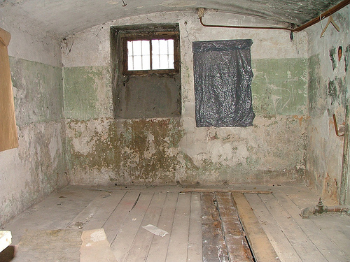 Mikvah in Jeszywas Chachmej Lublin